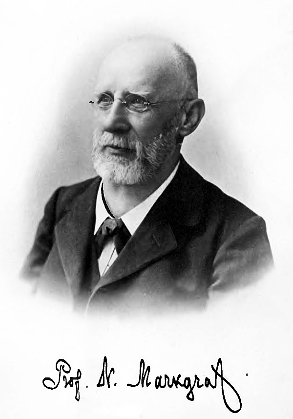 Hermann Markgraf (1838-1906) portrait with signature